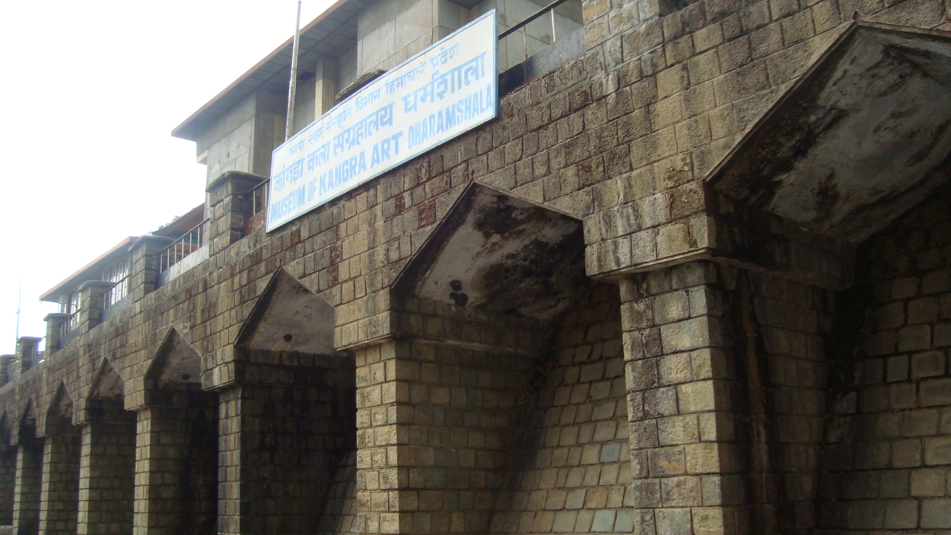 kangra art museum